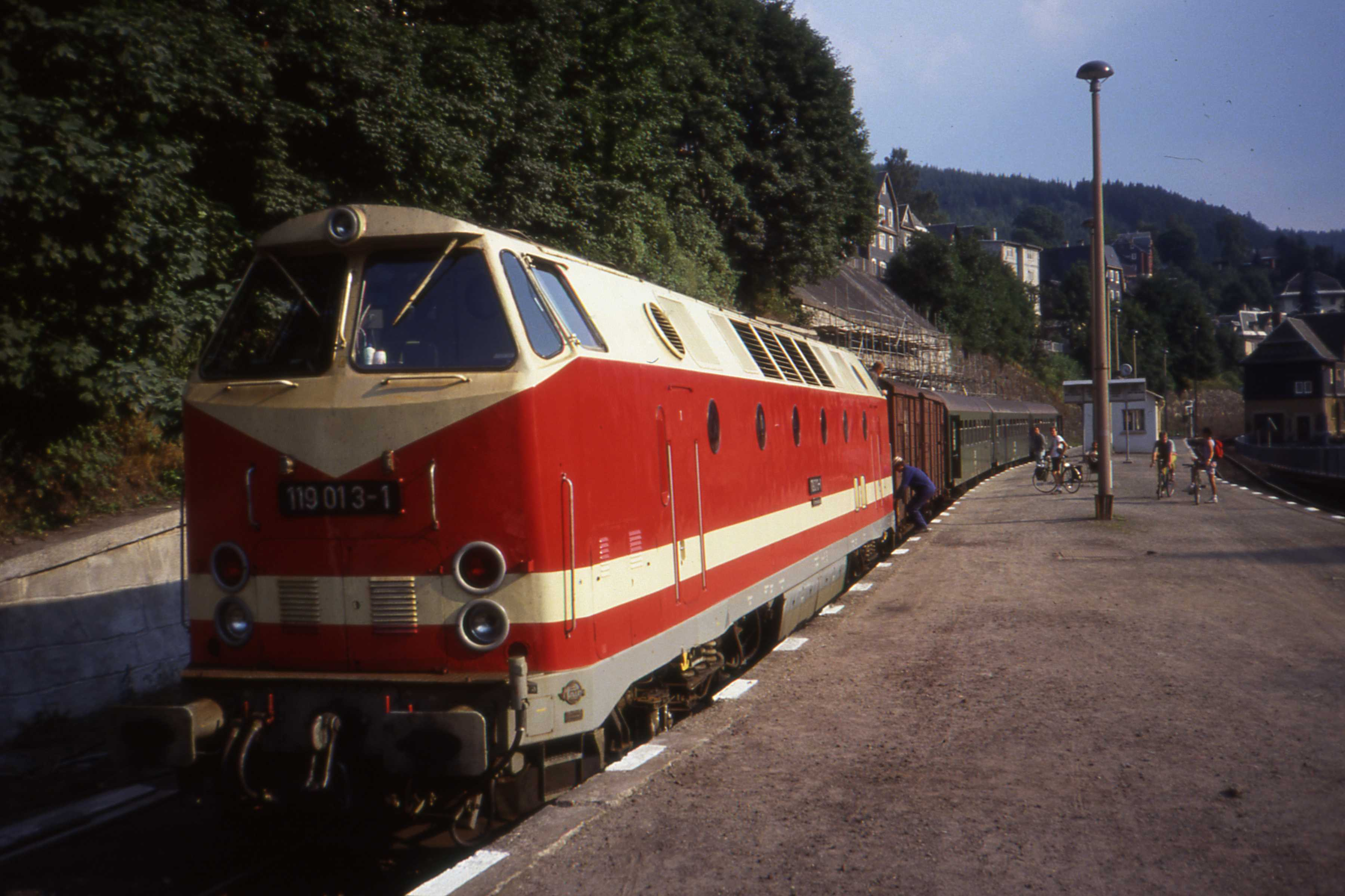 Lauscha was a stub terminus on the scenic Sonneberg - Probstzella line. Diesel locomotive 119 013-1 is being uncoupled from its train prior to running around and continuing the journey in the same general direction, but with a 180 degree turn and a huge climb up to Lichte. The goods wagon was a standard fitting on this line as a baggage car.